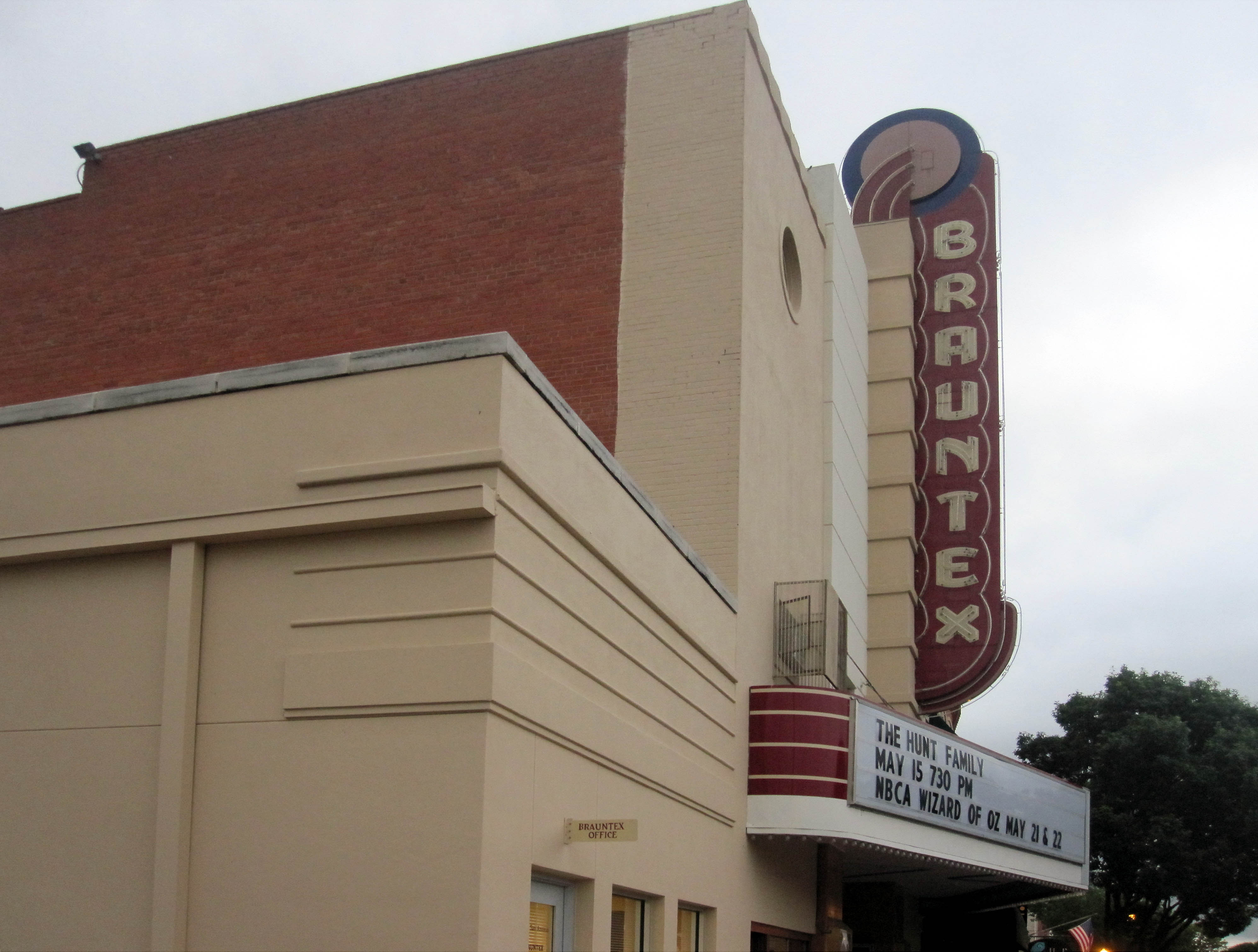 I took photo with Canon camera.